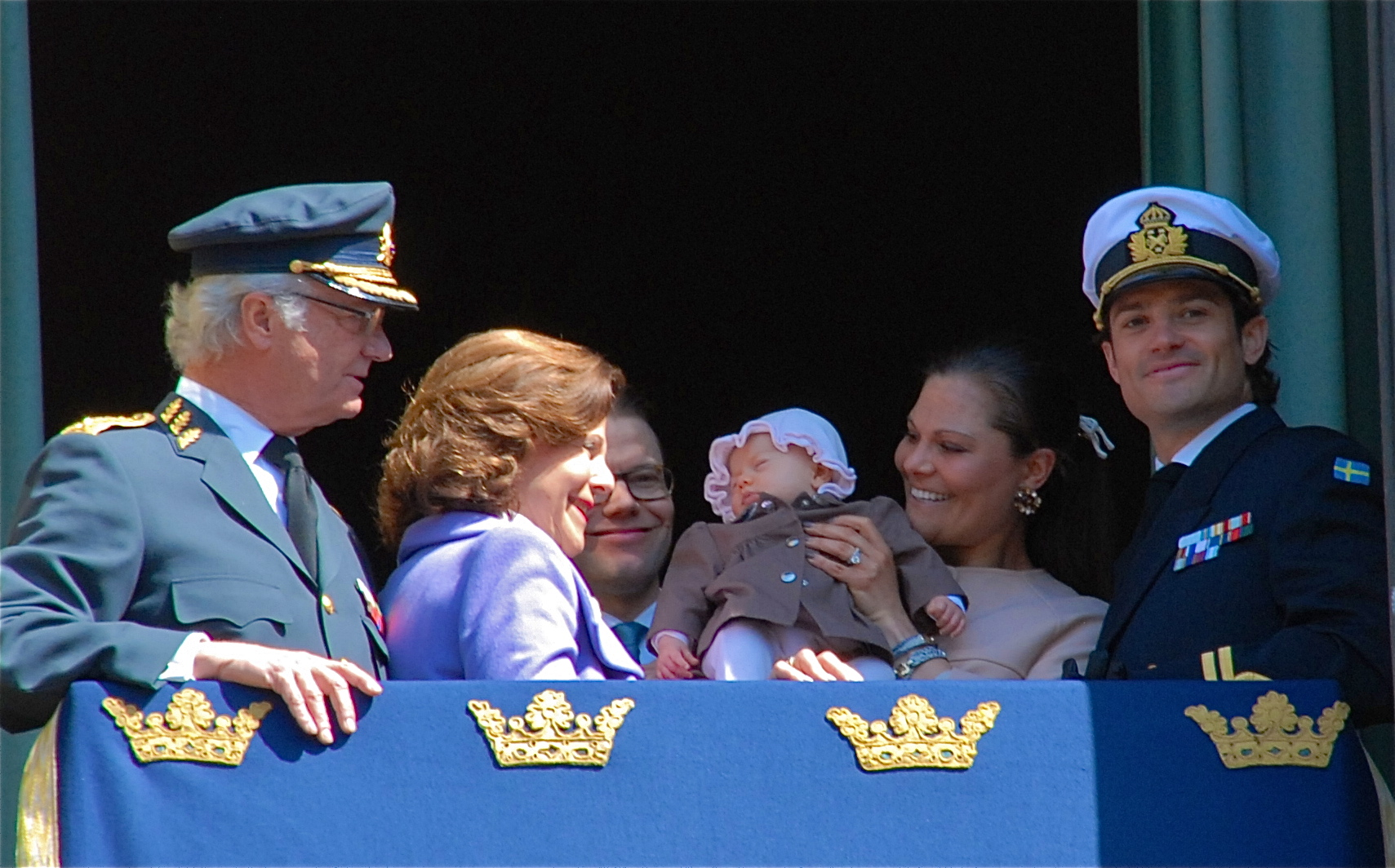 The Royal Family at the Royal Palace in Stockholm on the king's 66 birthday on April 30th 2012.